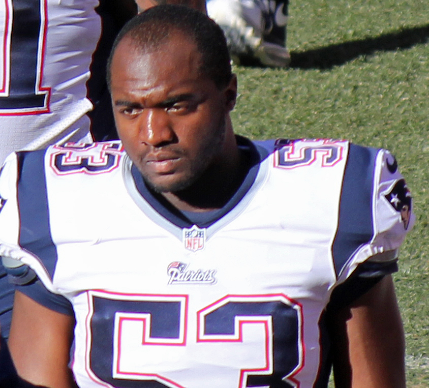 Ja'Gared Davis, a player on the National Football League.